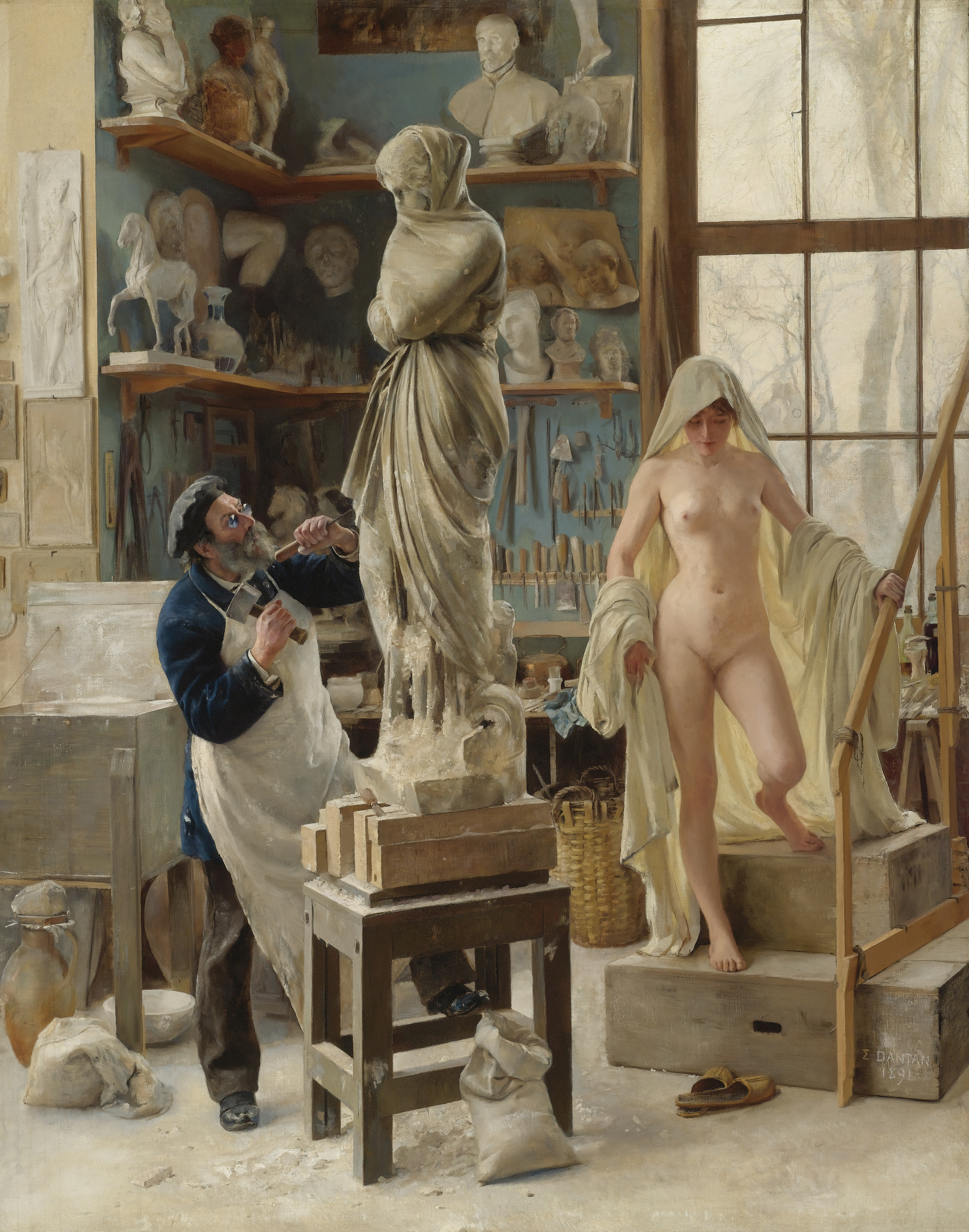 Une Restauration (A Restoration), oil painting by Edouard Dantan, 1891